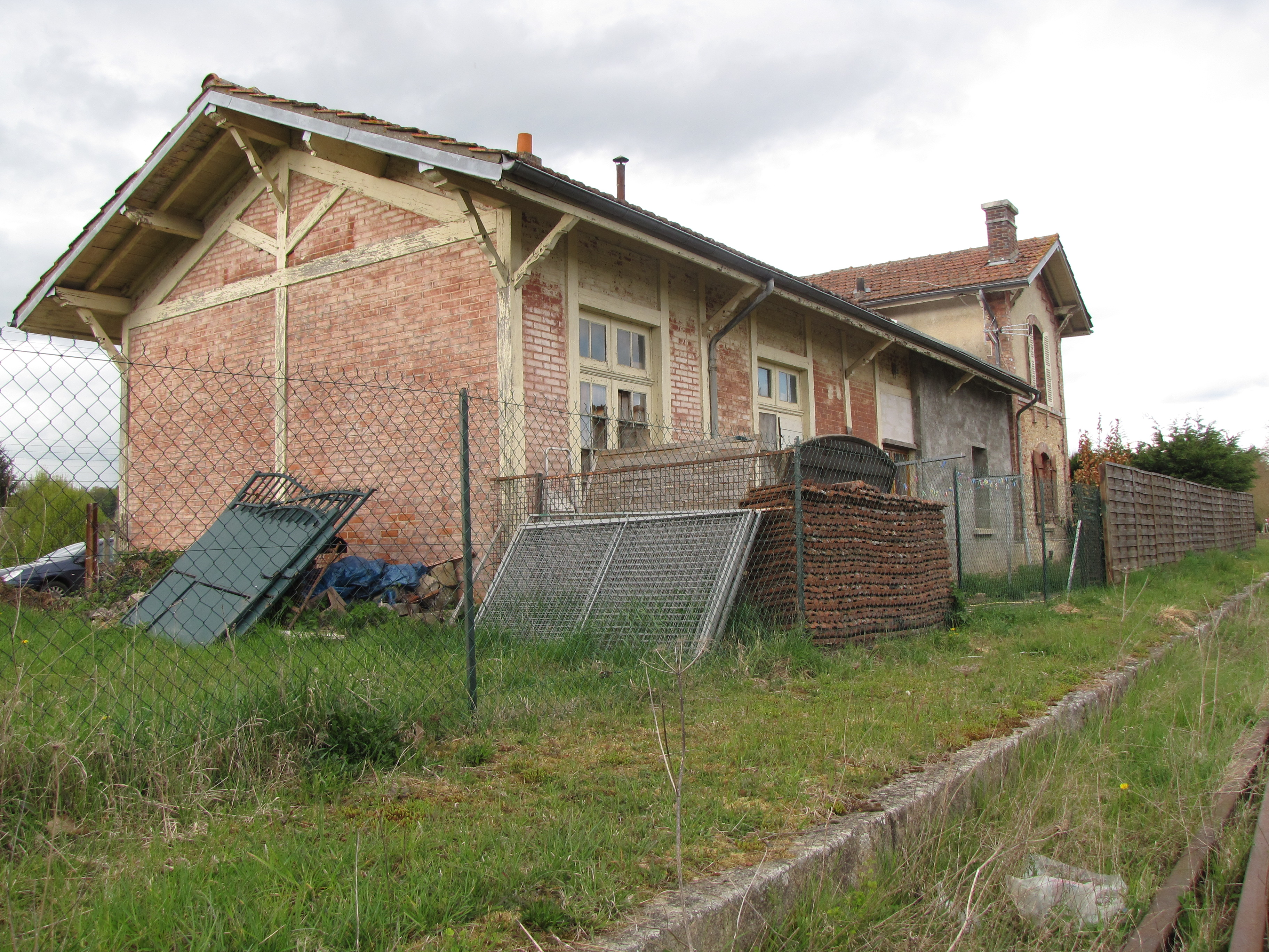 Disaffected train station - now a private house. The rails are still here at the back of the house.